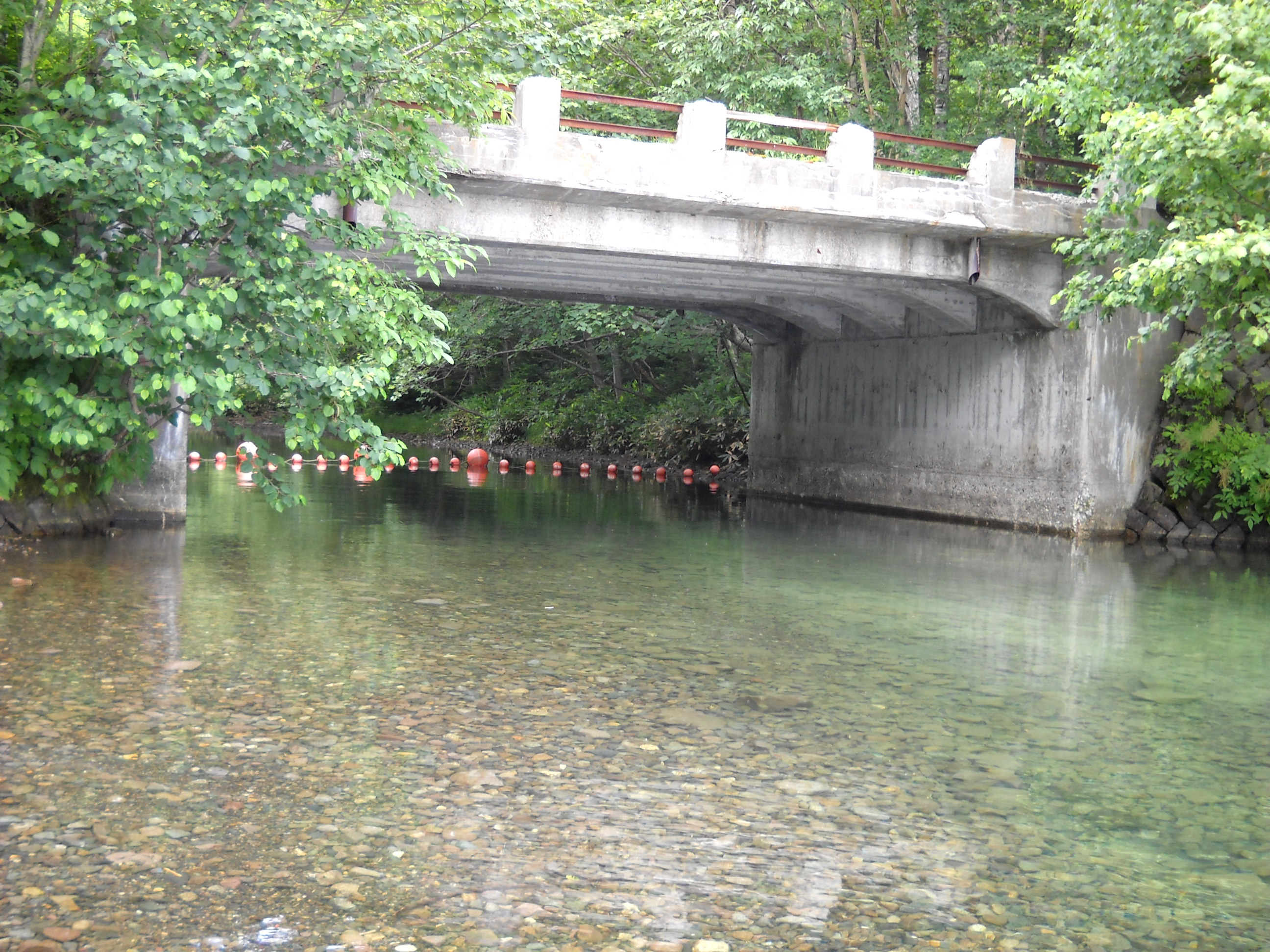 Shikaribetsu RIver, Shikaoi town, Hokkaido, Japan.